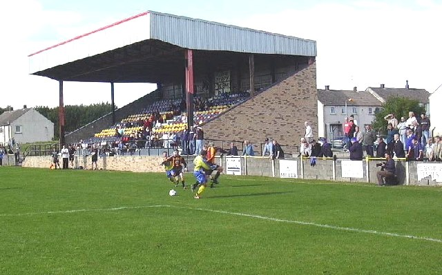 Beechwood Park, Auchinleck. Football ground